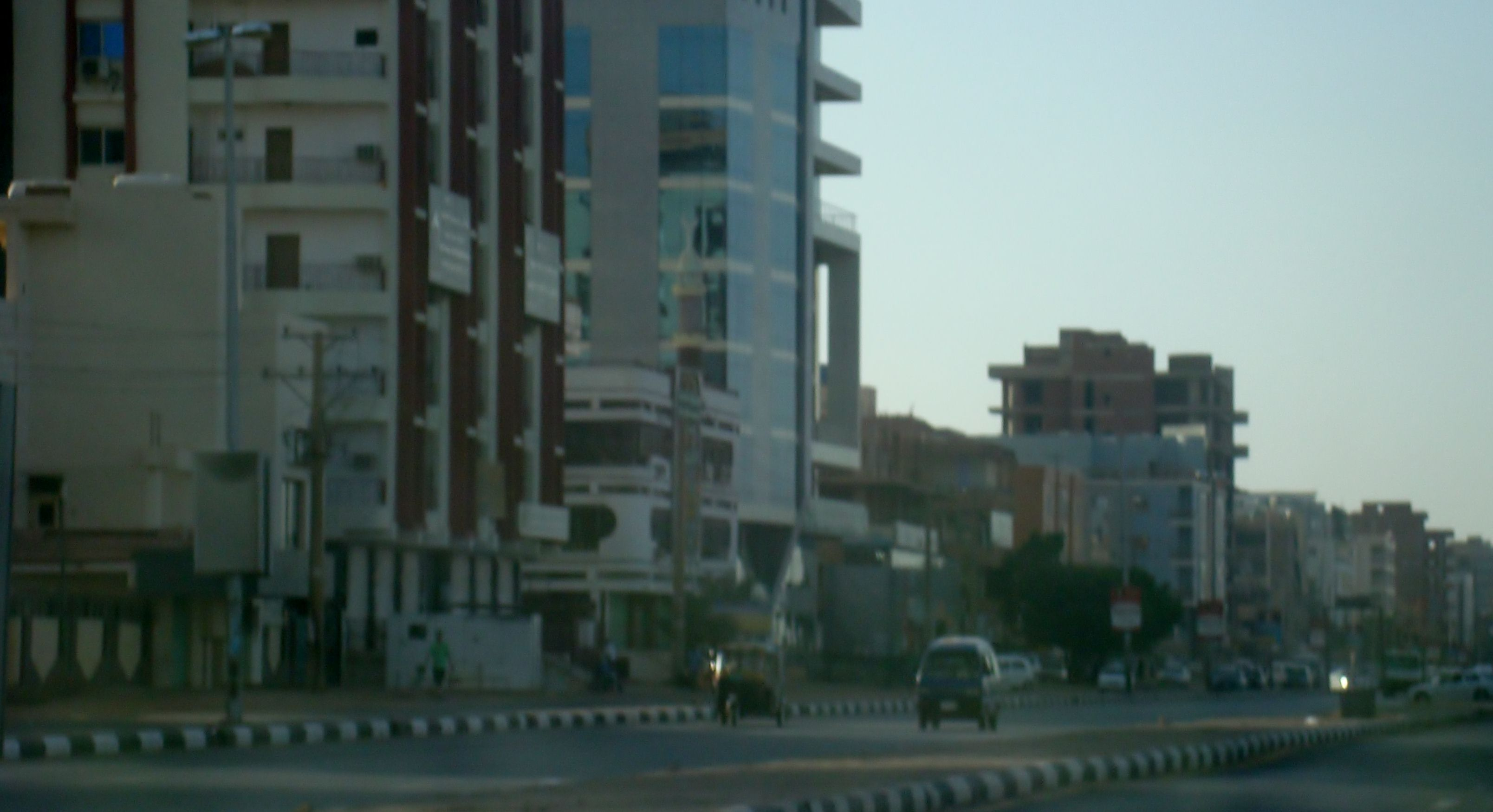 Africa Street – Khartoum - Sudan